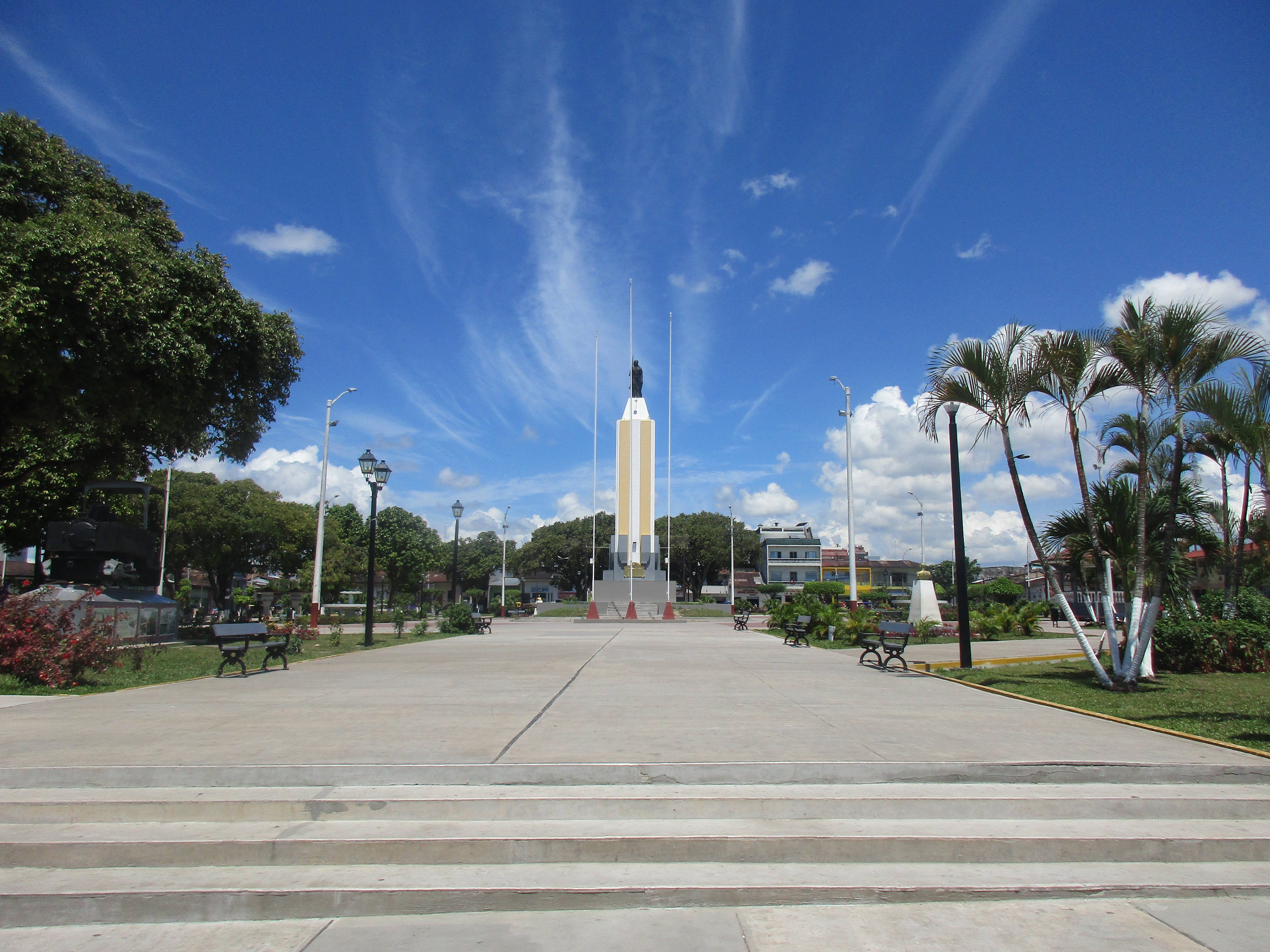 Plaza 28 de Julio, located in the city of Iquitos, Peru.